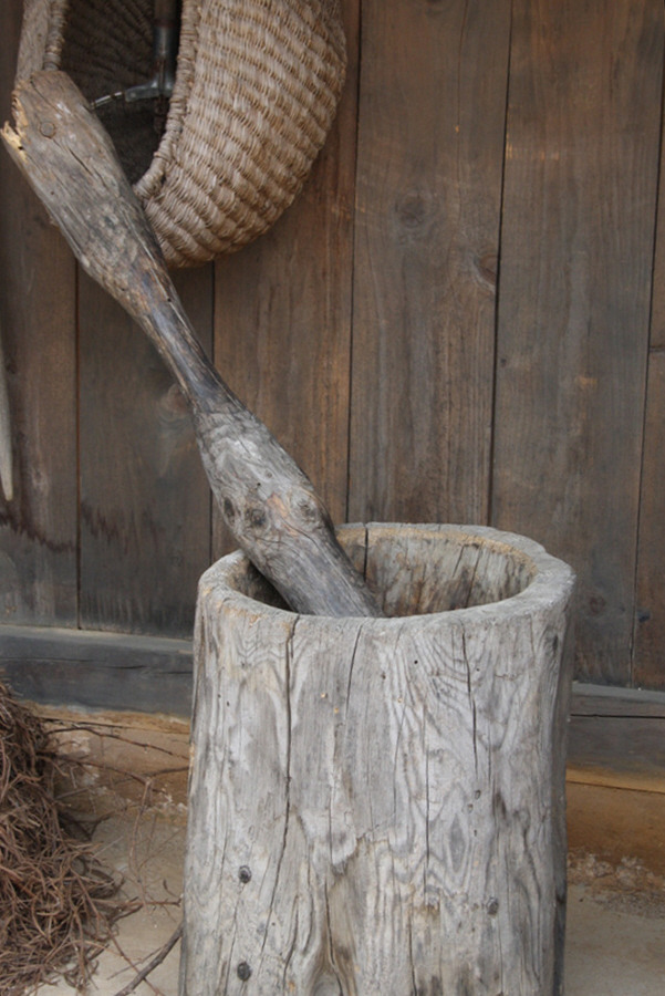 jeolgu (mortar) and gongi (pestle) in Cheonpo Gold Mine Village